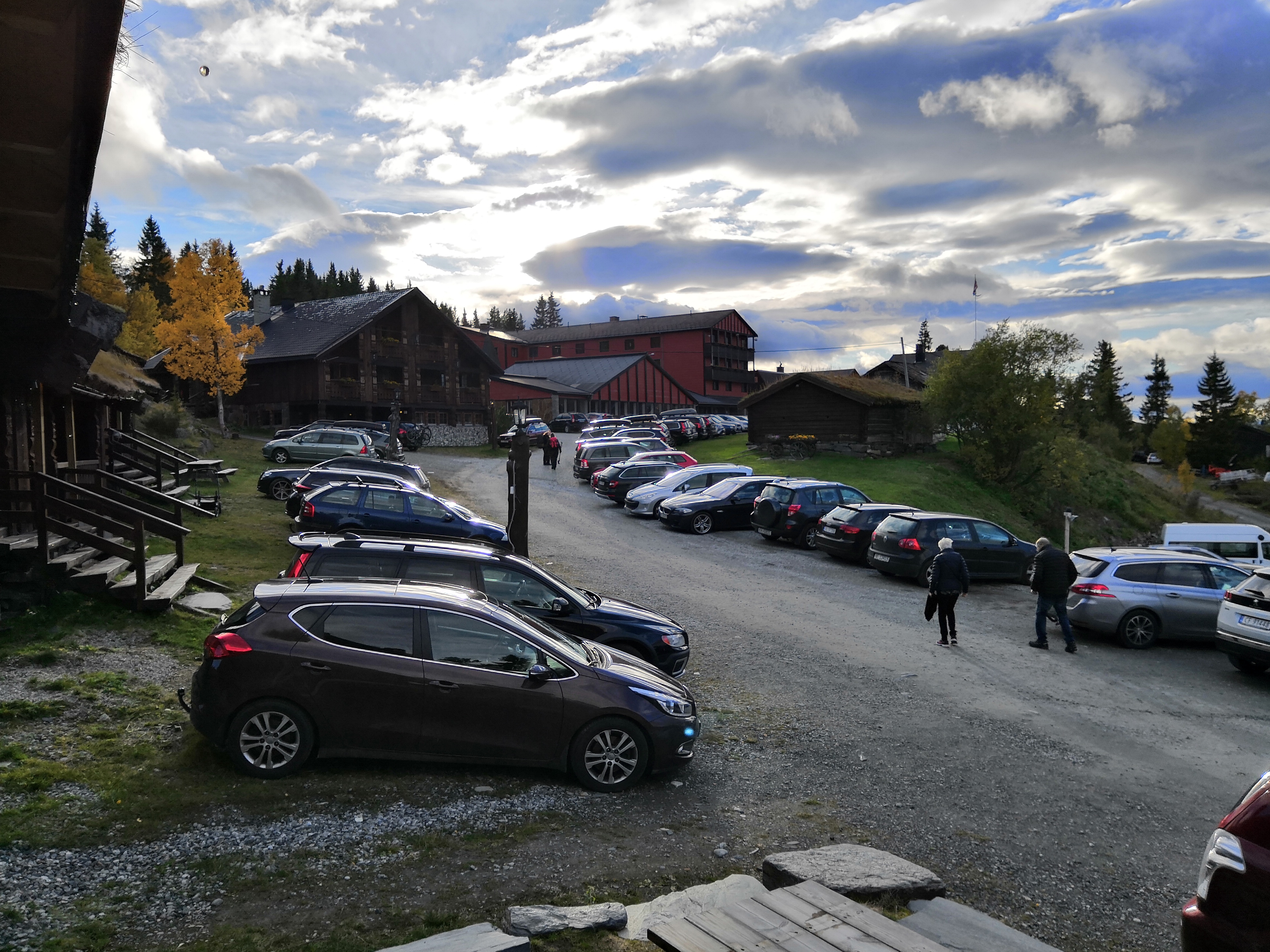 The Rondane Høyfjellshotell